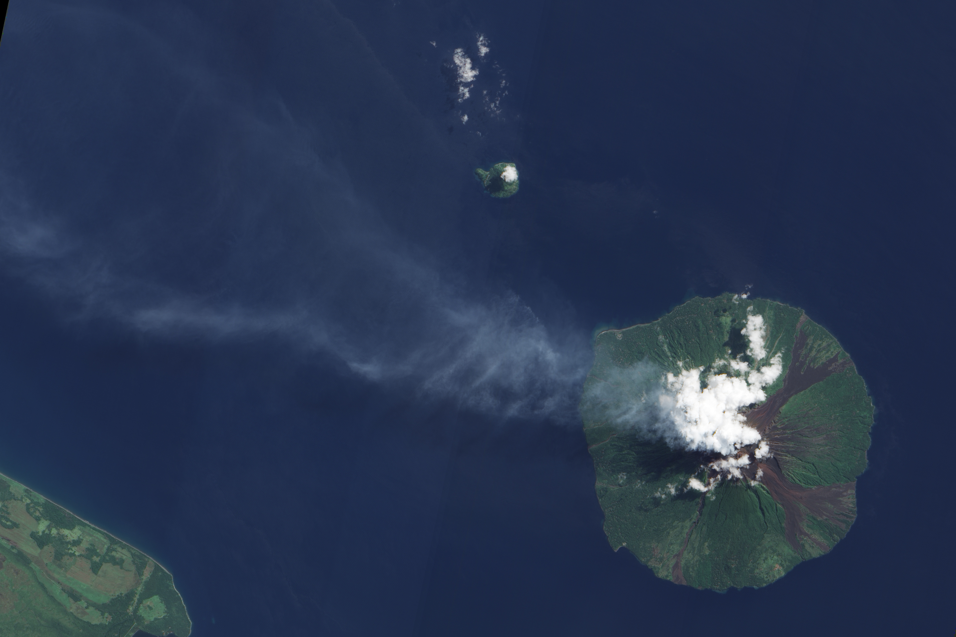 Bright white clouds hover over the volcano’s summit. Clouds often collect over peaks, but these clouds could result from water vapour released by the volcano. Slightly darker in colour, a pale blue-grey plume blows west-north-west from the summit and over the Bismarck Sea. Just 10 kilometres across, Manam is a stratovolcano composed of alternating layers of ash, lava, and rocks from prior eruptions. The circular island sports four radial valleys spaced roughly 90 degrees apart, and these valleys have historically channelled lava and pyroclastic flows—composed of hot rock, gas and ash—sometimes all the way to the coast. Evidence of earlier volcanic activity appears as rivulets of rock that interrupt the vegetation coating much of the island. Although clouds hide the summit in this image, the summit is known to support two craters devoid of vegetation.